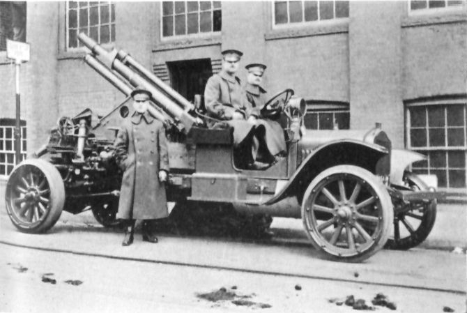 US 75mm 1916 Model field gun, on Model 1917 truck anti-aircraft mounting.